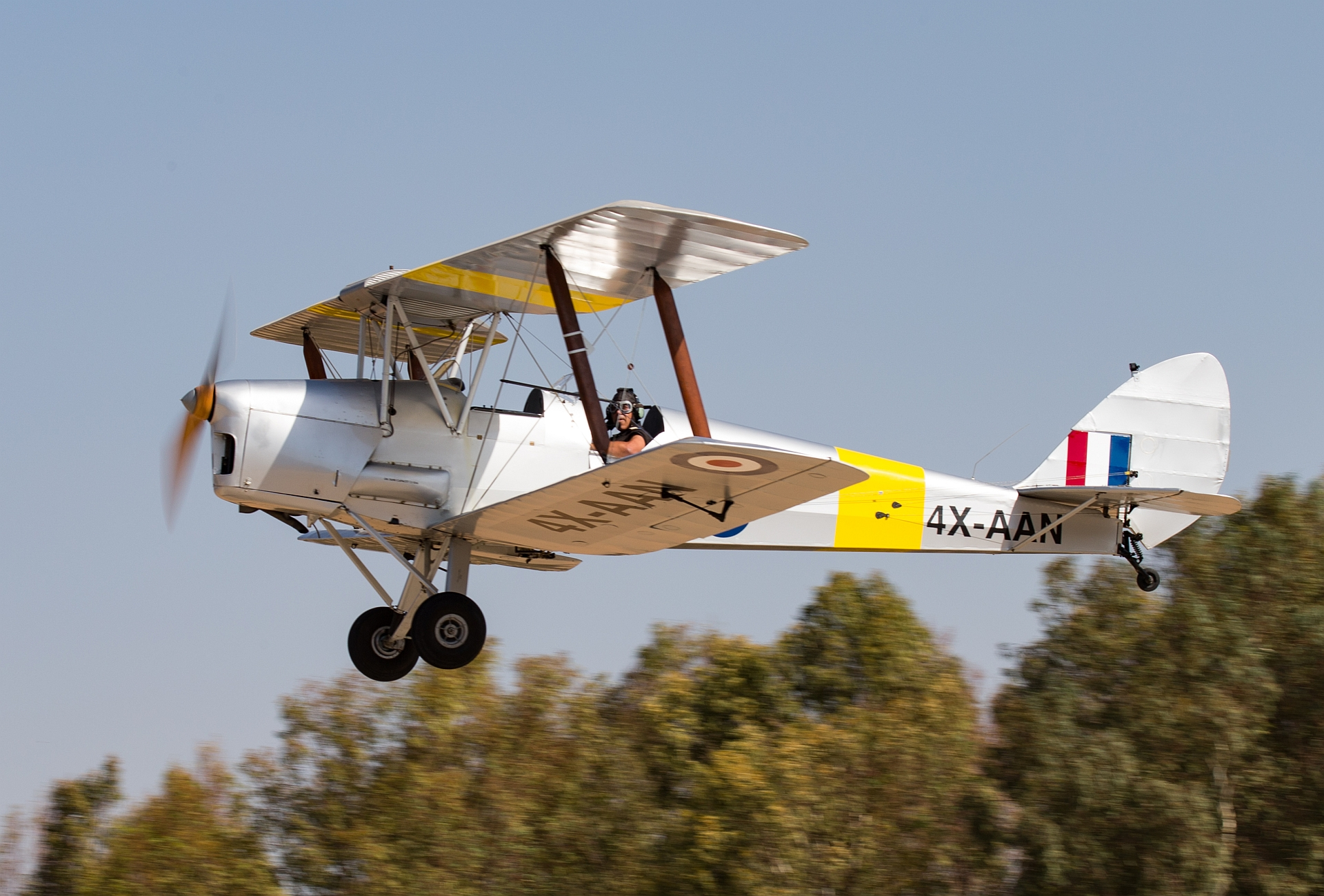 4X-AAN at Herzliya Airfield